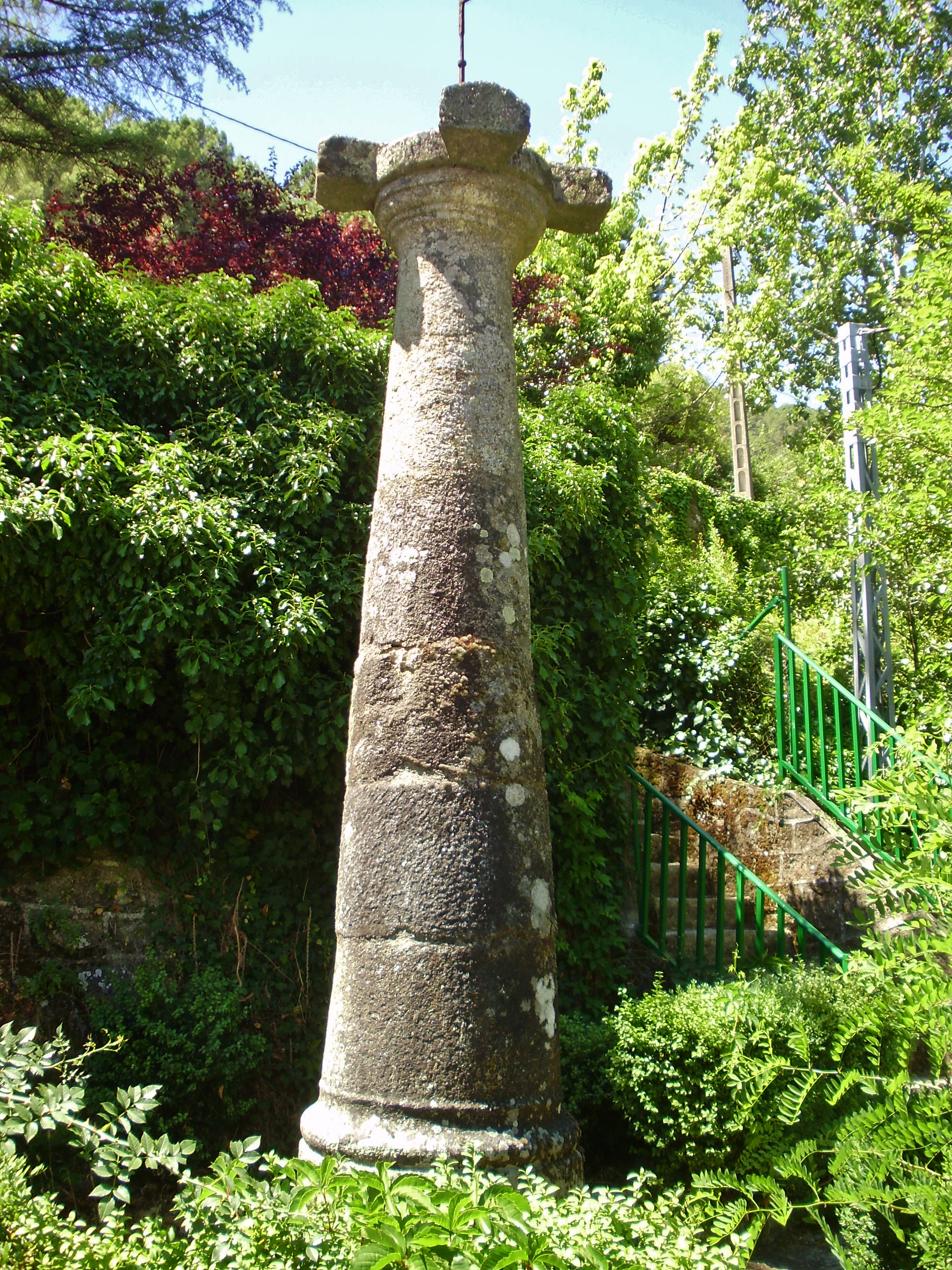 Pillory in El Hornillo, province of Ávila, Castile and León, Spain